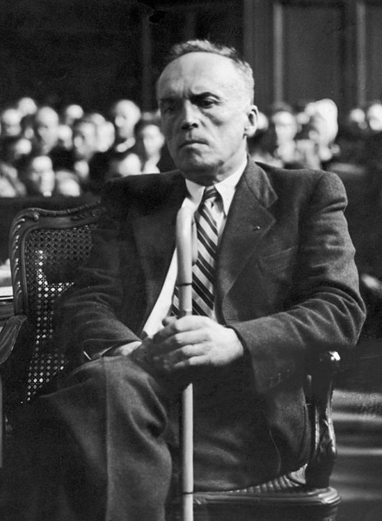 Georges Loustaunau-Lacau during the Trial Of Marshal Petain (Paris, France, 1945).